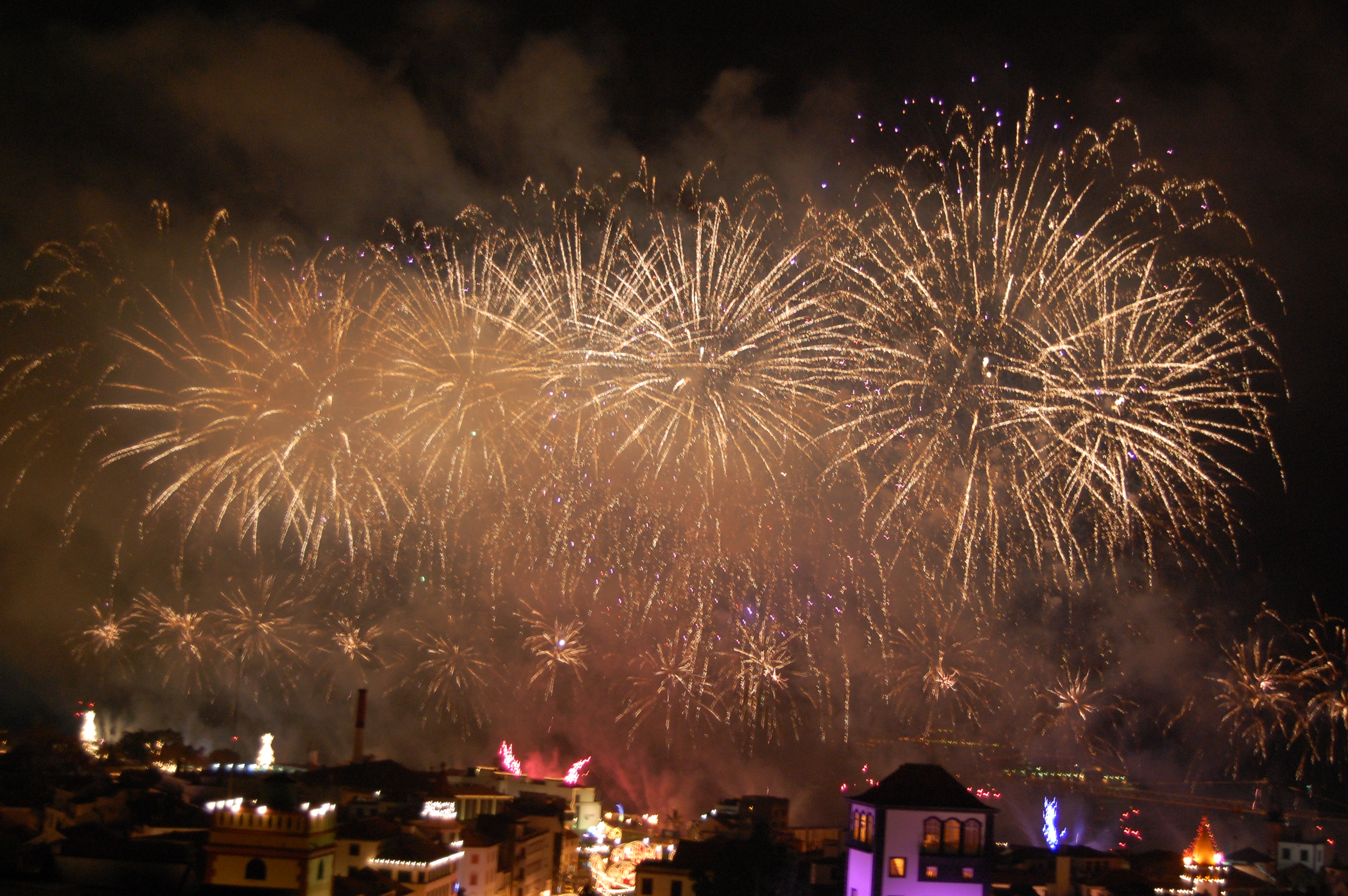 Funchal Fireworks